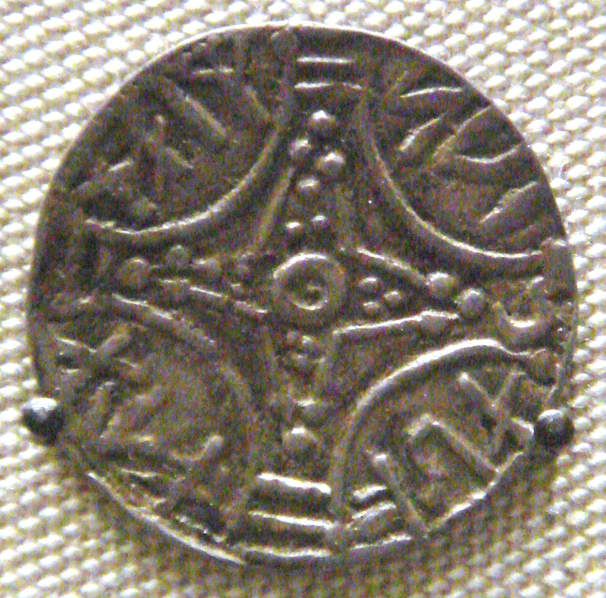 Coin of Sven_Estridssen